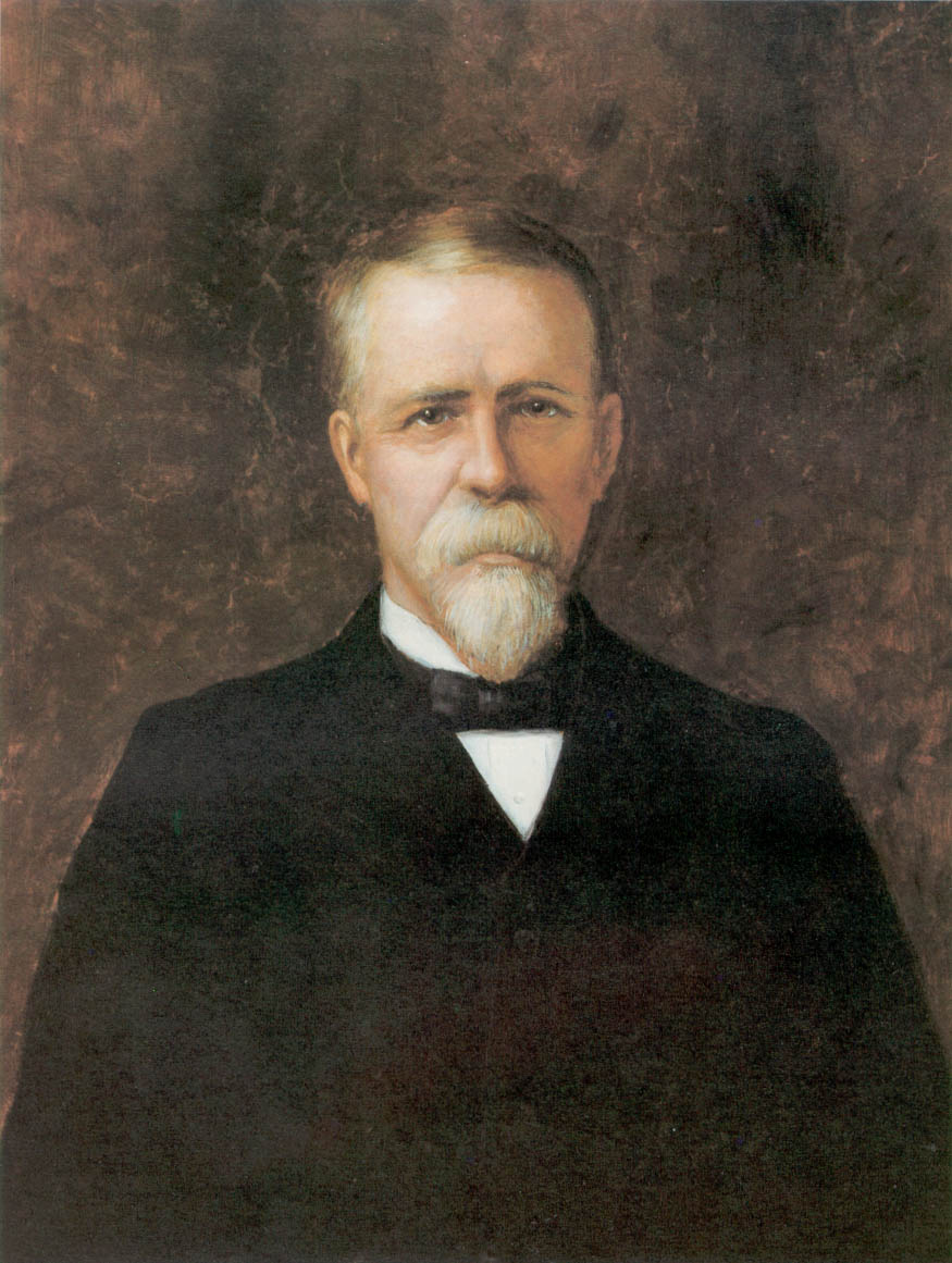 Russell Alexander Alger, 40th United States Secretary of War.